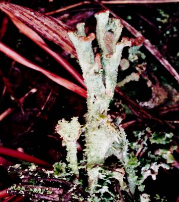 Cladonia grayi complex